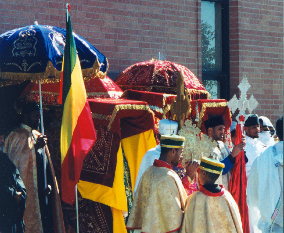 Ethiopian Orthodox clergymen lead a procession in celebration of Saint Michael. During such processions, the clergy carry Ethiopian crosses and ornately covered tabots around the church building's exterior. St. Michael Ethiopian Orthodox Church Garland, Texas November 20, 1999 Photo by Gyrofrog Uploaded to Wikimedia Commons on January 12, 2007 for use by the Wikimedia Foundation and/or its various projects (Wikipedia etc.) For any other use, please give credit to Gyrofrog or Wikimedia Commons.